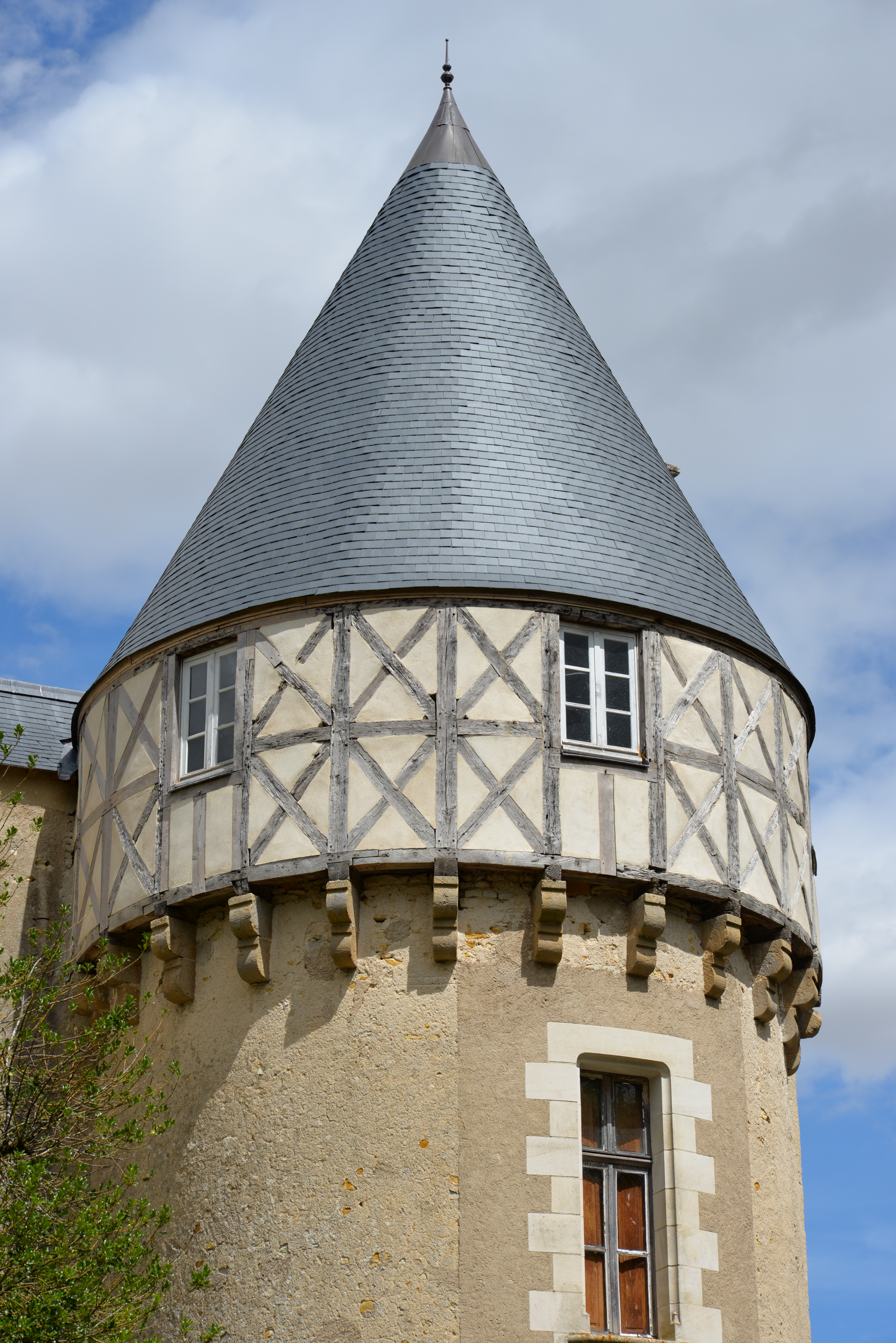 south.